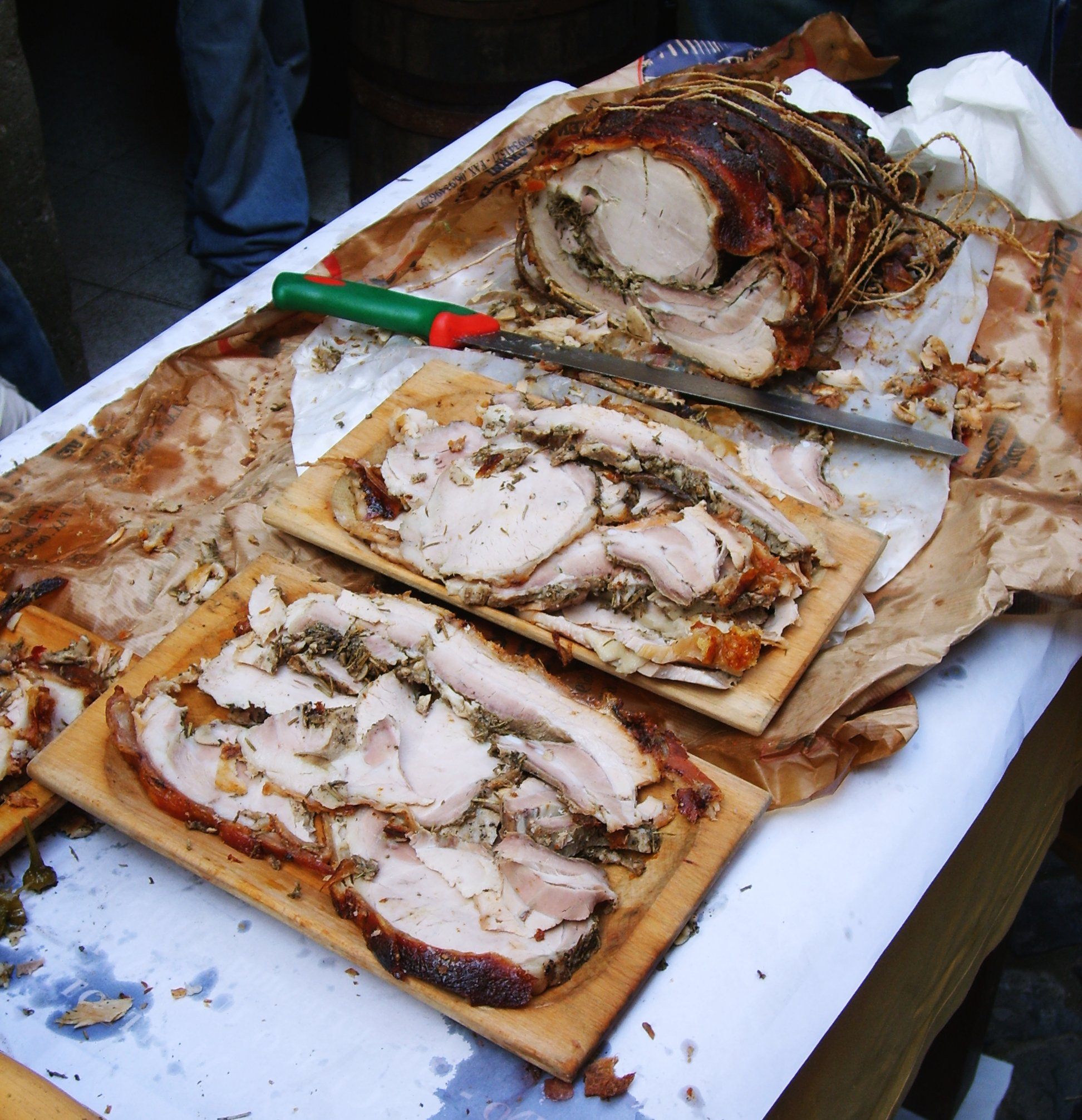 It shows a Porchetta, both integer and cut in slices